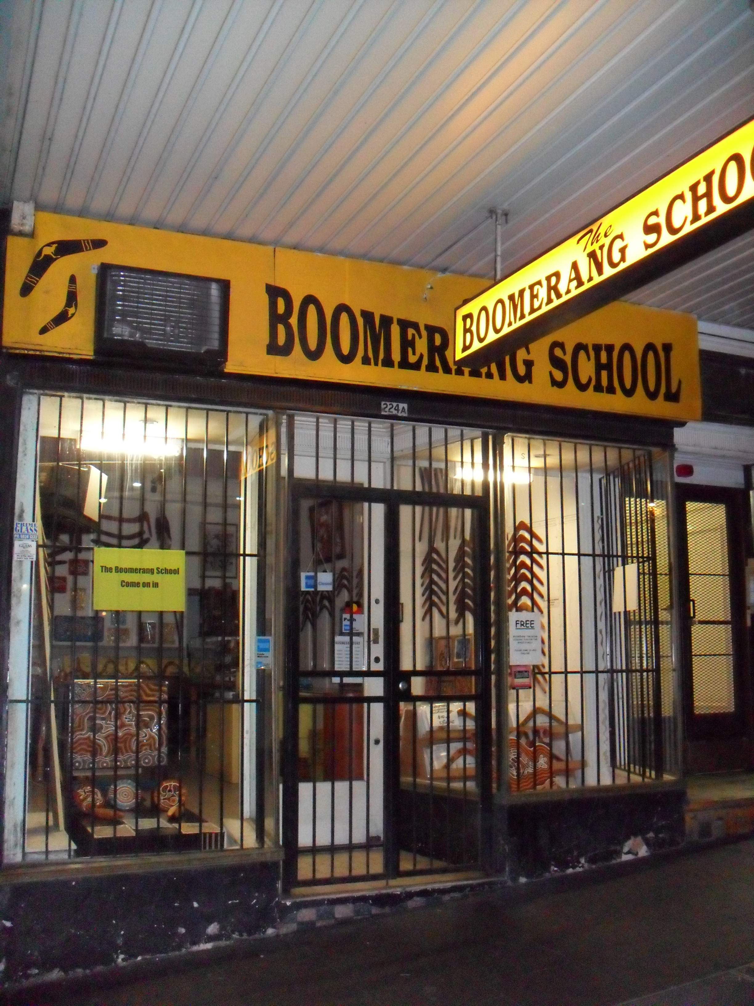 Boomerang School, William Street, Kings Cross, Sydney